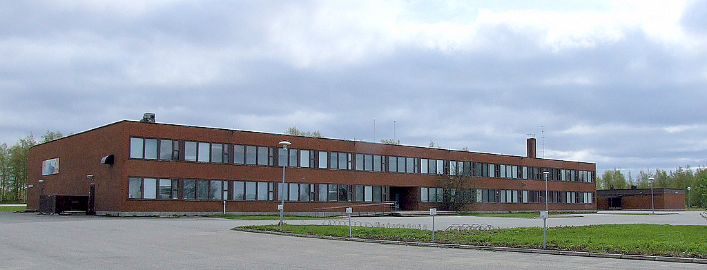 Sauvosaari Elementary and Secondary School in Kemi, Finland. The building was designed by architect Heikki Sirén and it was completed in 1960.